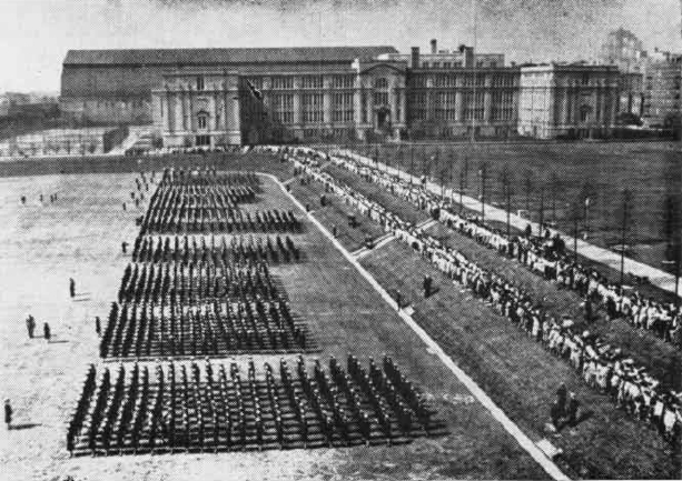 Opening of the U.S. Navy recruit camp for WAVES (Women Accepted for Volunteer Emergency Service) at Hunter College (Bronx Campus), New York City (USA), on 8 February 1943. At one time in 1944, 5000 WAVES were training at Hunter College, a total of 95,000 women volunteers were trained for military service at Hunter College.